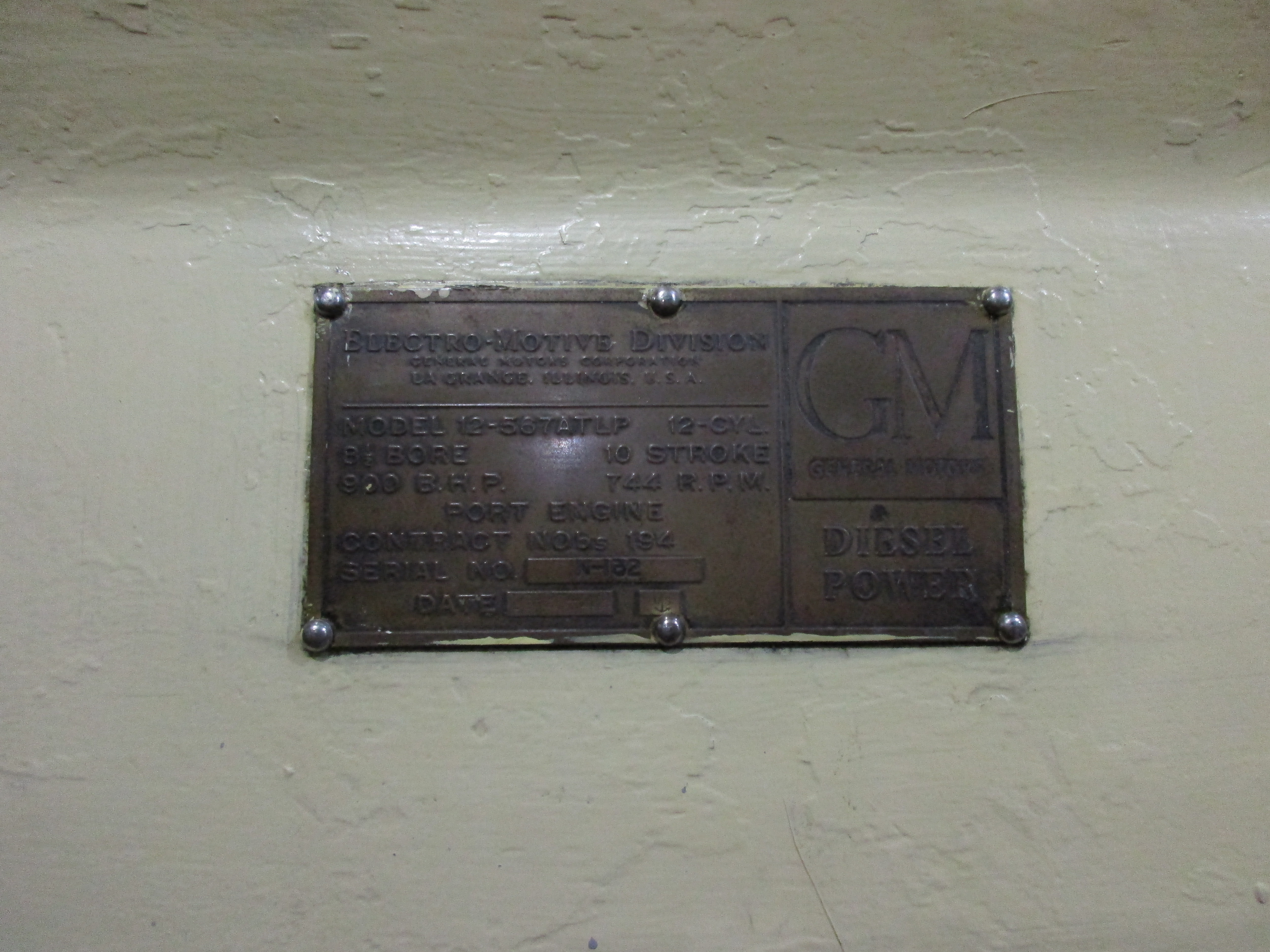 Engine ID plate from LST393